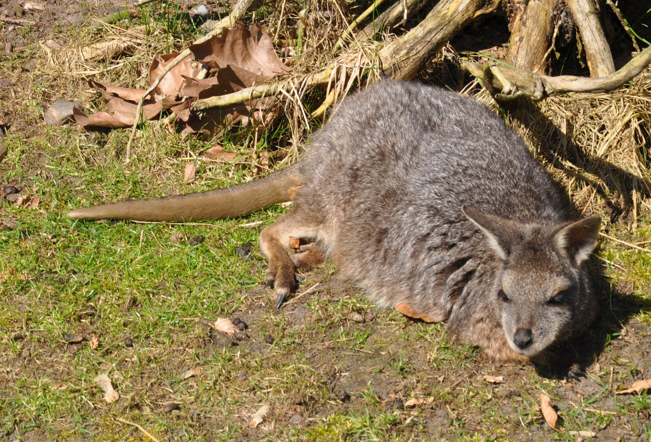 Tamar wallaby